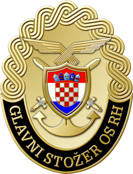 Seal of Armed General Staff of the Armed Forces of Croatia